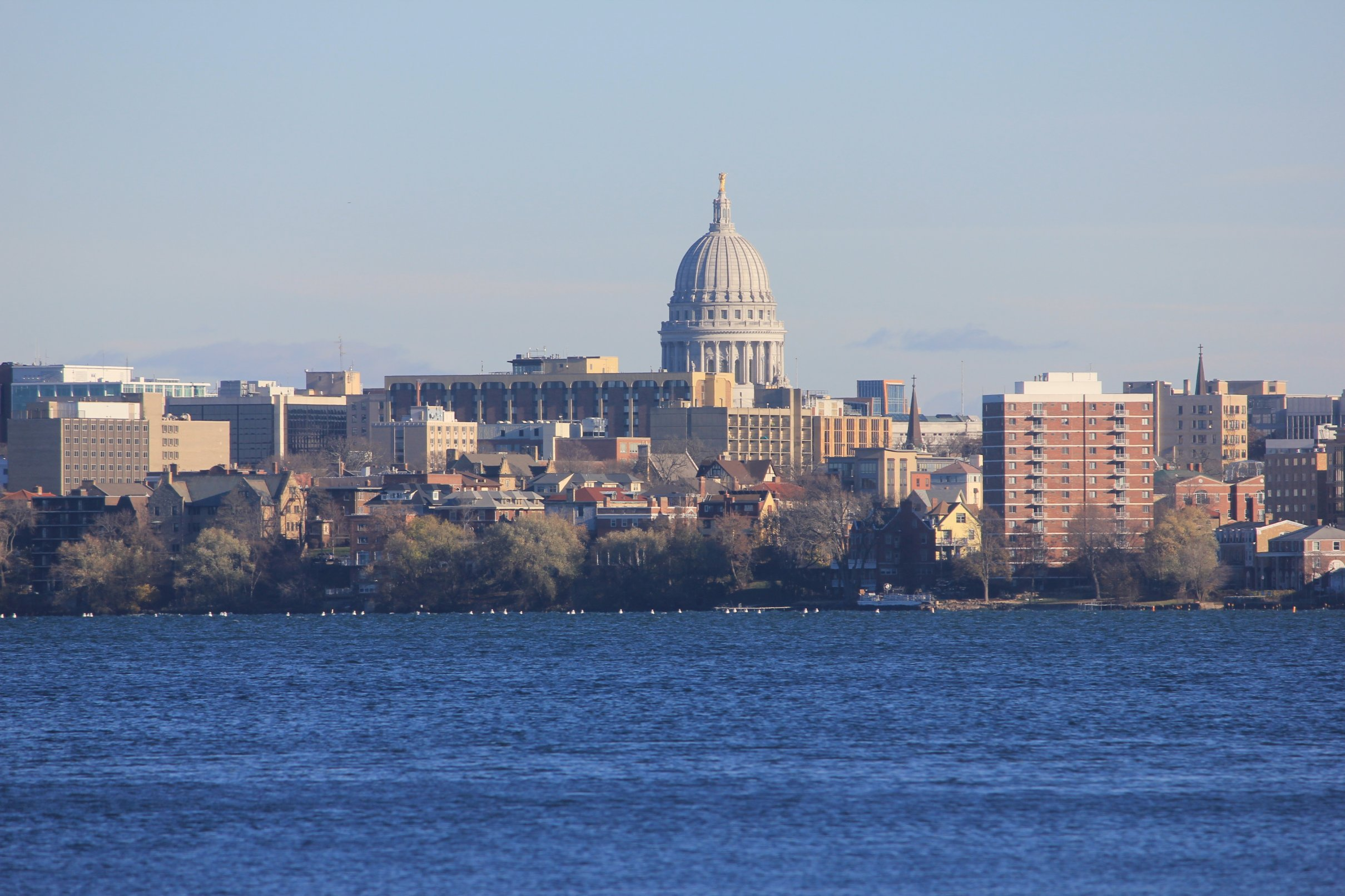 Madison Skyline from Picnic Point